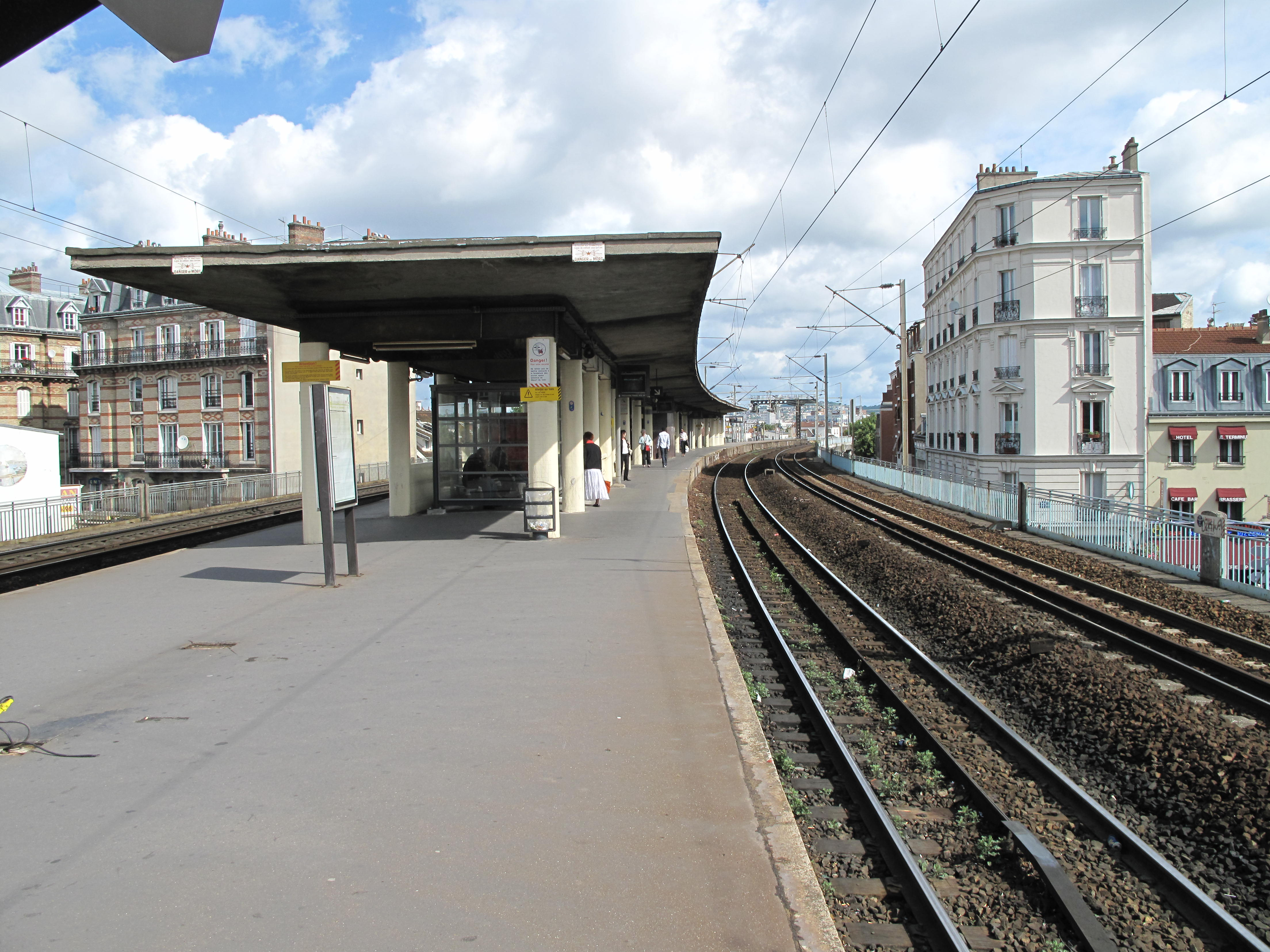 Colombes station, near Paris. North direction